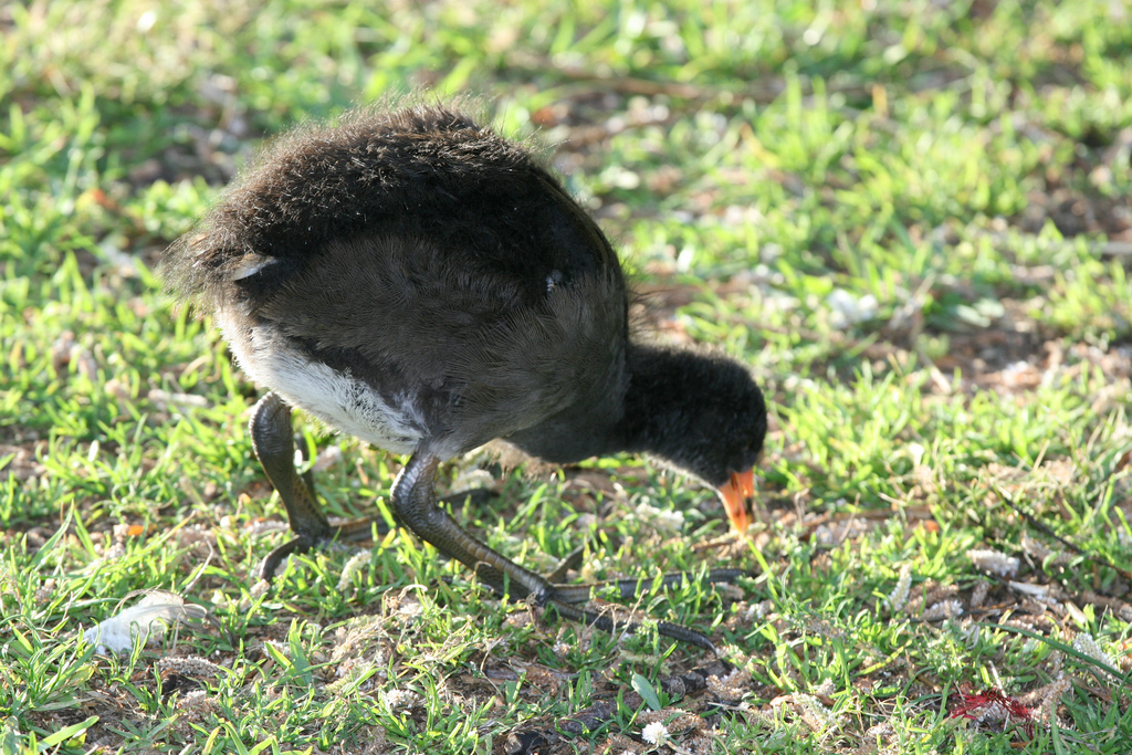 Gallinula_tenebrosa_(Dusky_Moorhen). Chicken